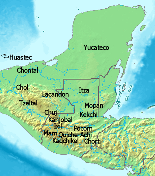 Map of Mayan languages — spoken in Mesoamerica and northern Central America.